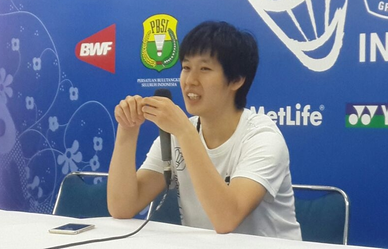 Tang Yuanting during the press conference at the Indonesia Open 2016